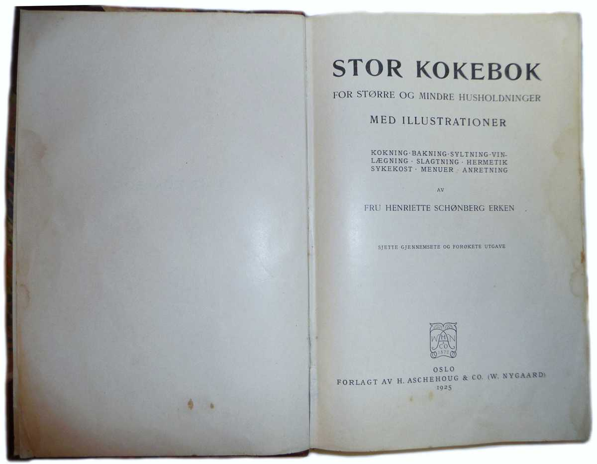 "Stor kokebok" Henriette Schønberg Erken.